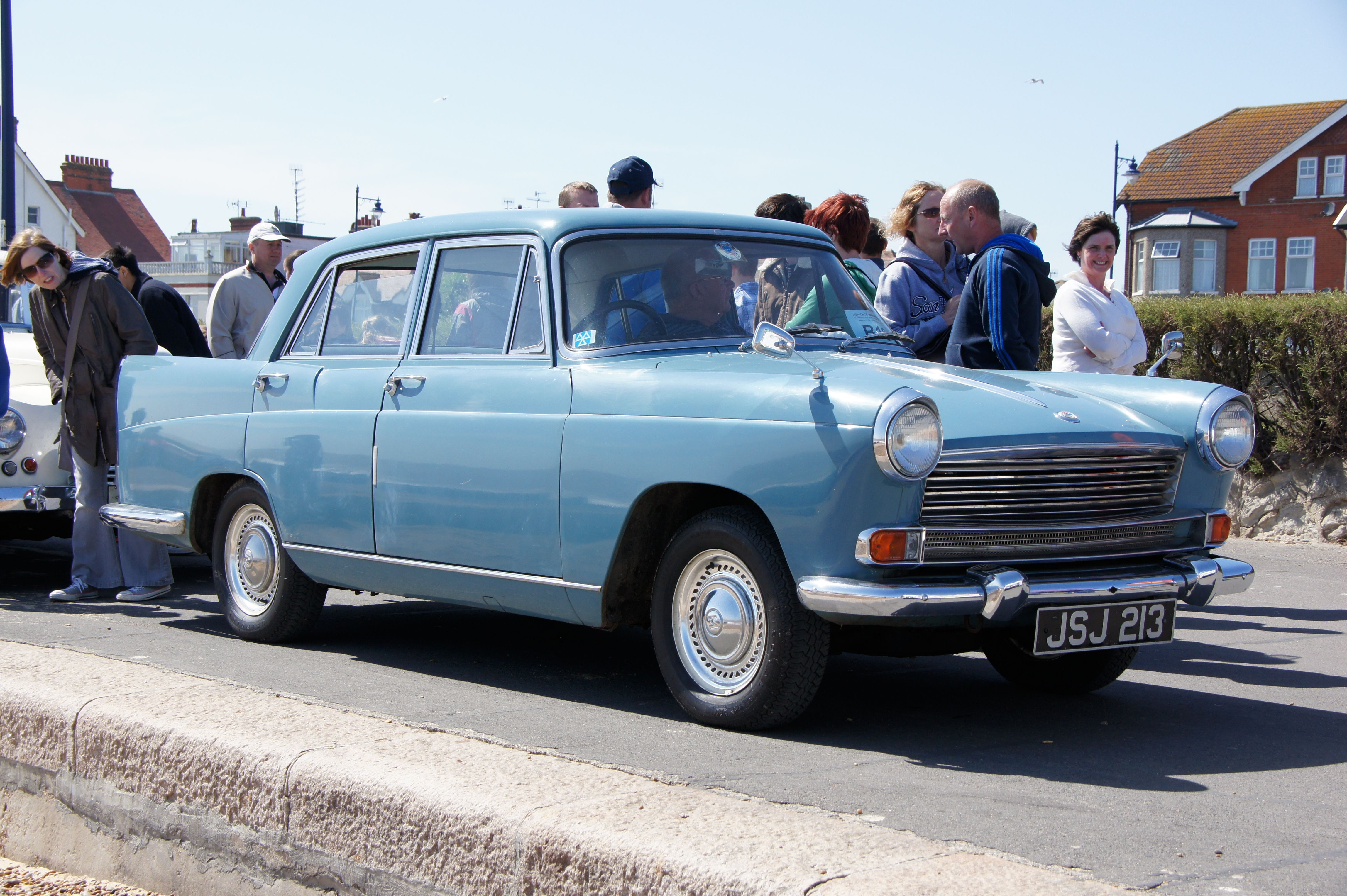 1961 Morris Oxford series V (DVLA) first registered 1 August 1961, 1489cc Felixstowe, England, United Kingdom